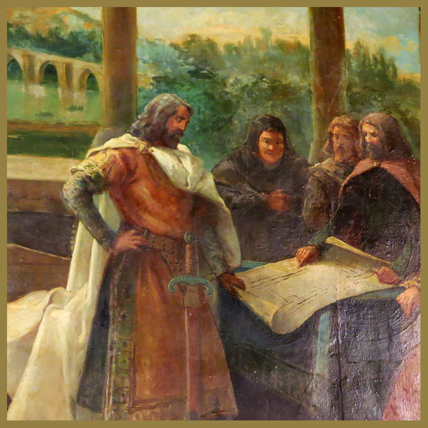 Detail from a mural in the dance hall of the Circulo de Recreo in Valladolid, showing Count Pedro Ansúrez